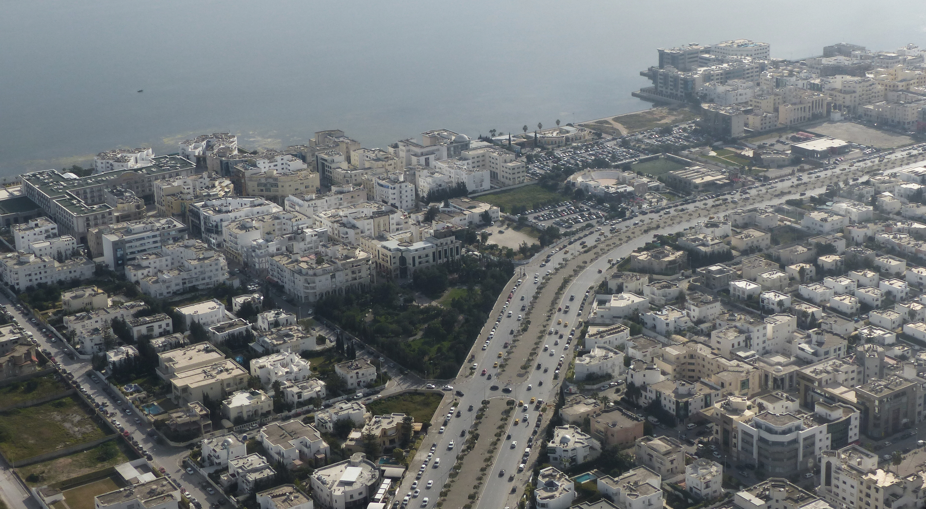 Aerial view of a road in Tunis. This is an image with the theme "Africa on the Move or Transport" from: Tunisia